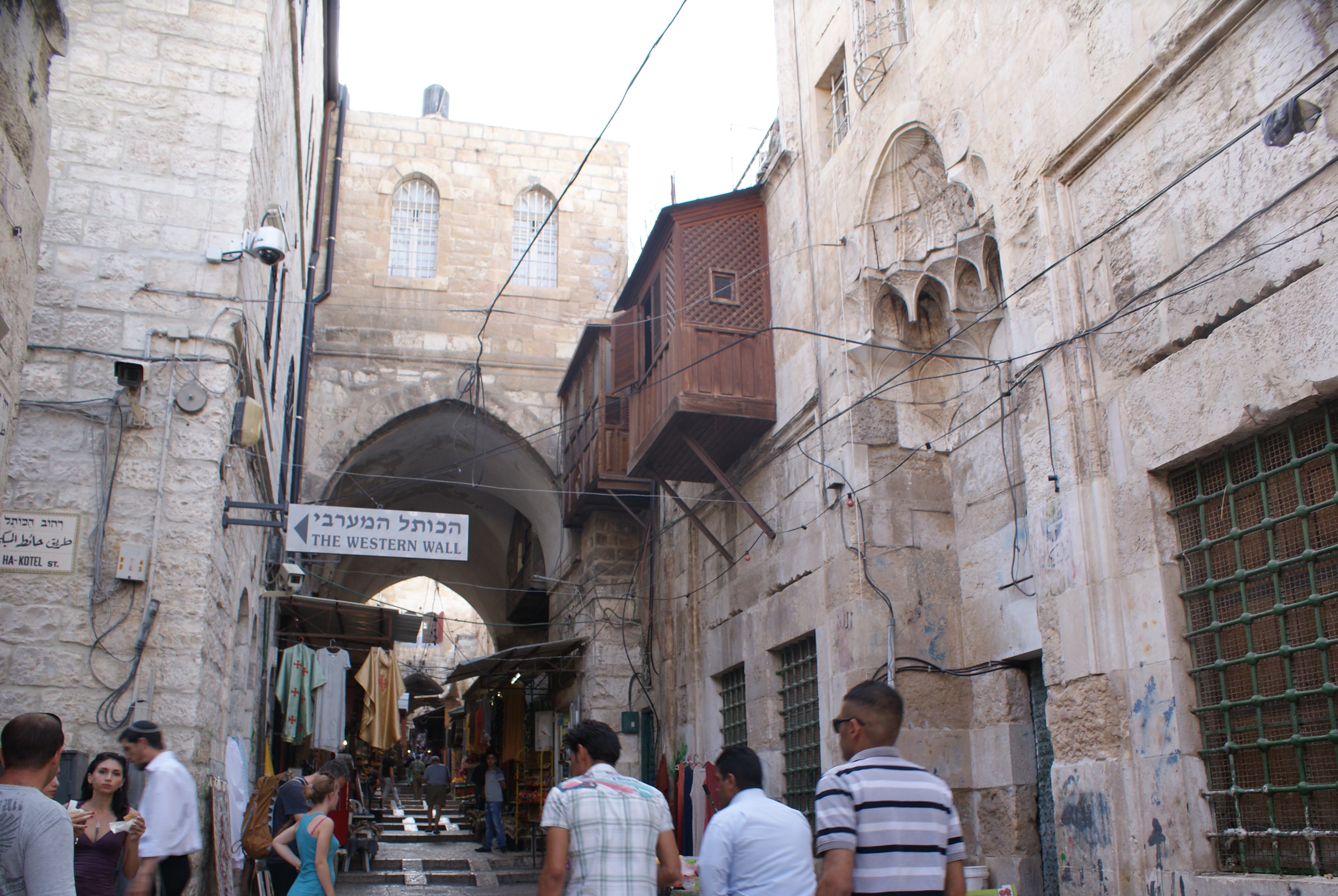 Old Jerusalem, Chain Gate street (at the corner with Ha-Kotel street) - Jewish Quarter (4)